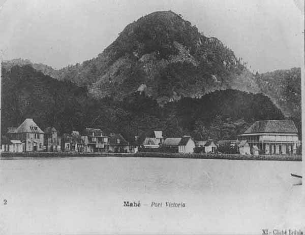 Port Victoria, Mahe, Seychelles